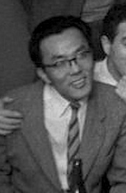 Shūsaku Endō (1923–1996)